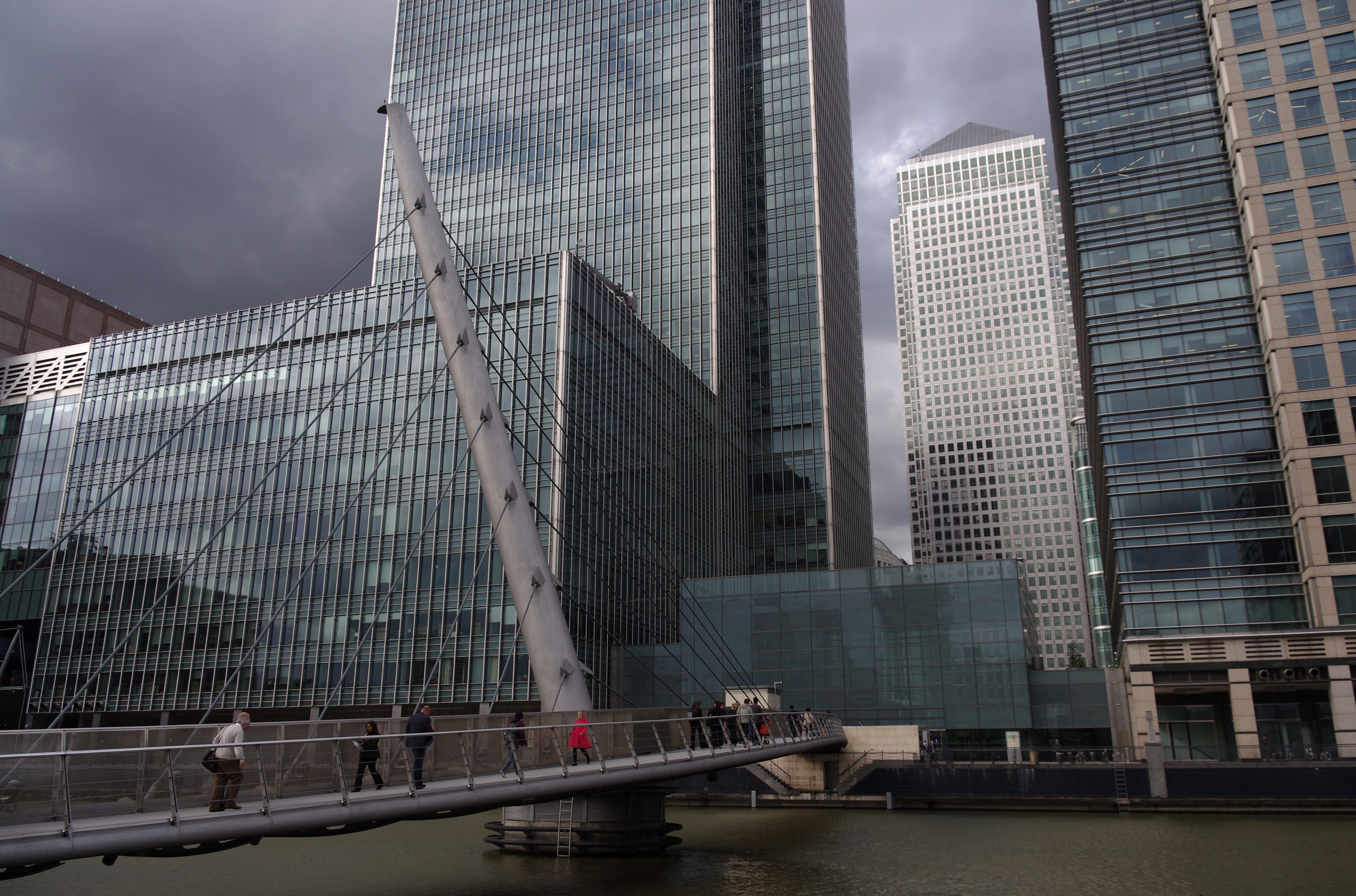 The Heron Quays footbridge over the City Canal in Canary Wharf.